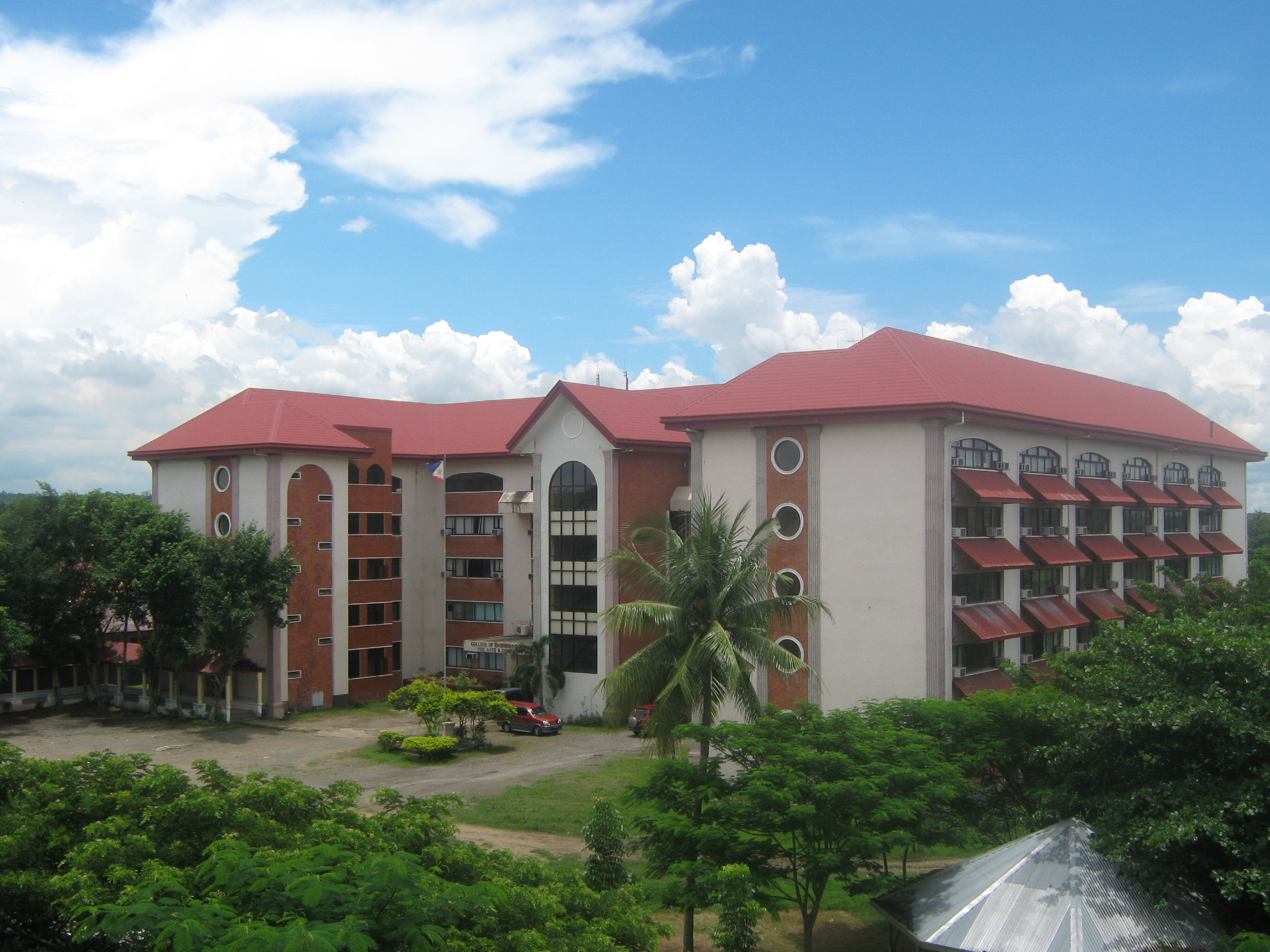 This image depicts the College of Engineering, Architecture, Fine Arts and Computing Sciences Building (CEAFACS) building located in Batangas State University Main Campus II, Brgy. Alangilan, Batangas City, Philippines. Tagalog: Ipinapakita ng larawang ito ang gusali ng Kolehiyo ng Engineering, Architecture, Fine Arts and Computing Sciences Building (CEAFACS) na matatagpuan sa Pambansang Pamantasan ng Batangas, Brgy. Alangilan, Lungsod ng Batangas, Pilipinas.